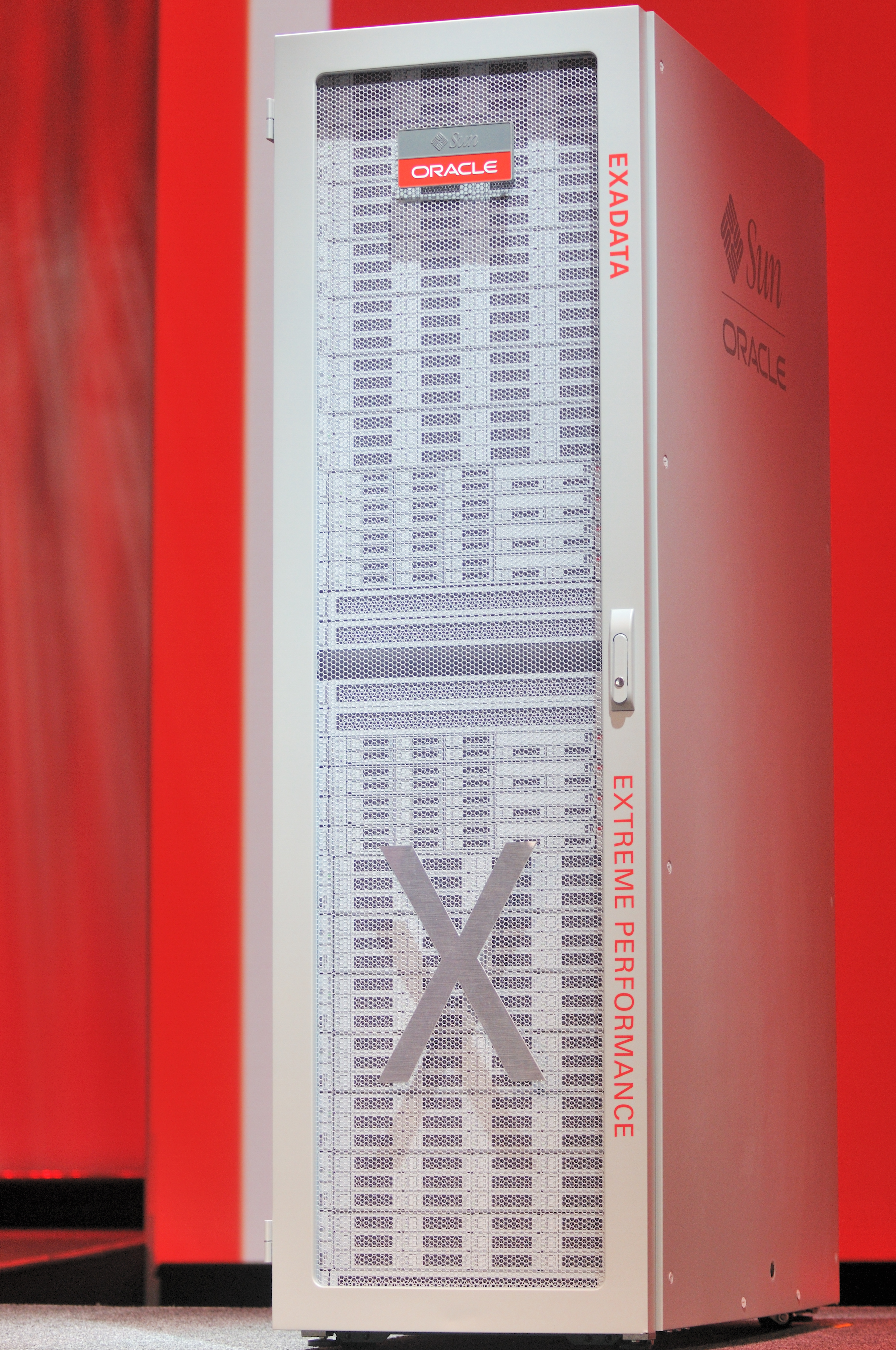 Oracle-Sun database appliance Exadata X2-2 full rack on OpenWorld'2009